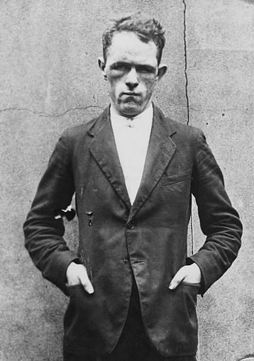 Photograph of IRA member Joseph O'Sullivan taken before his 1922 execution.